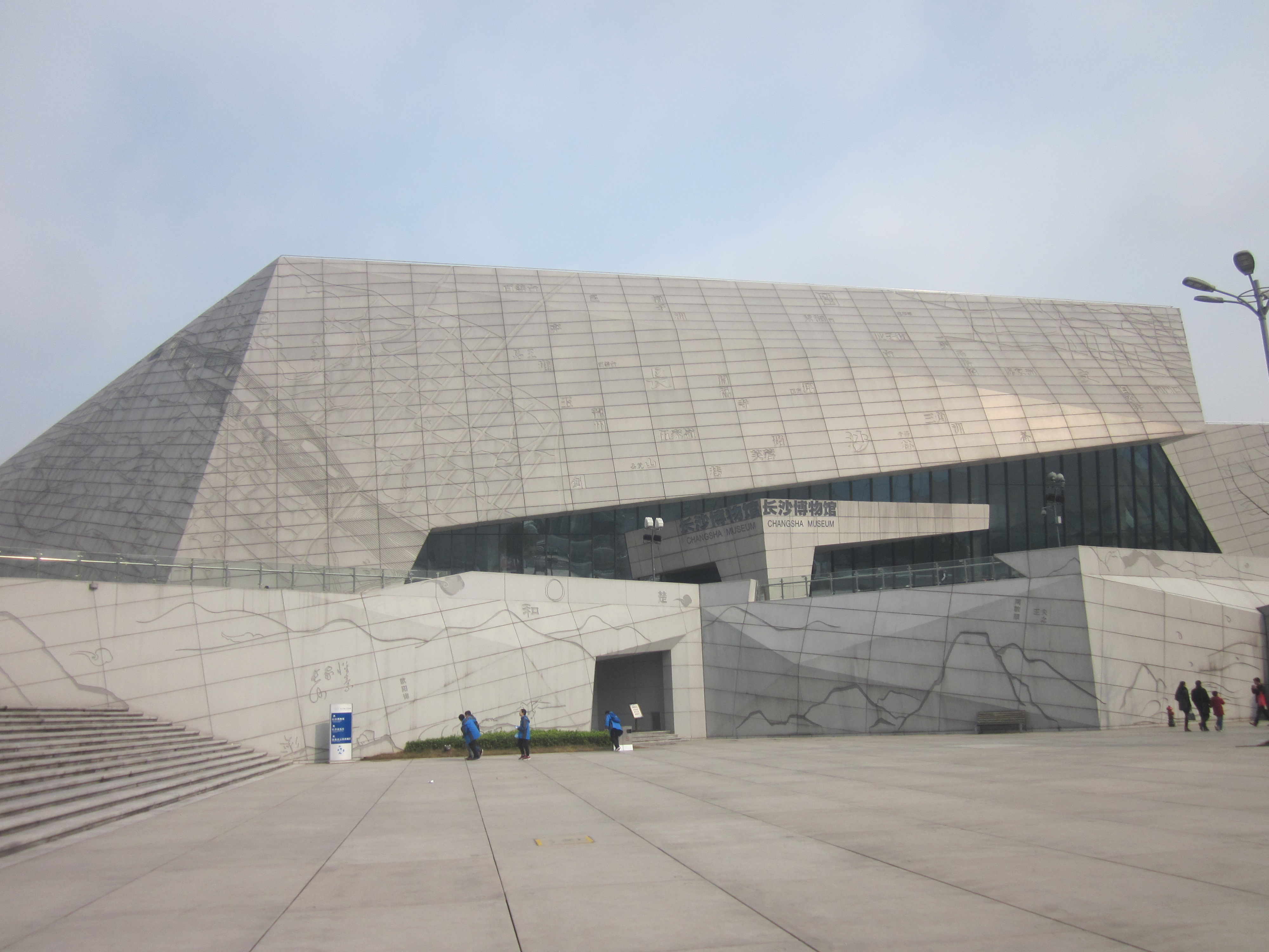 A far view of Changsha Museum.